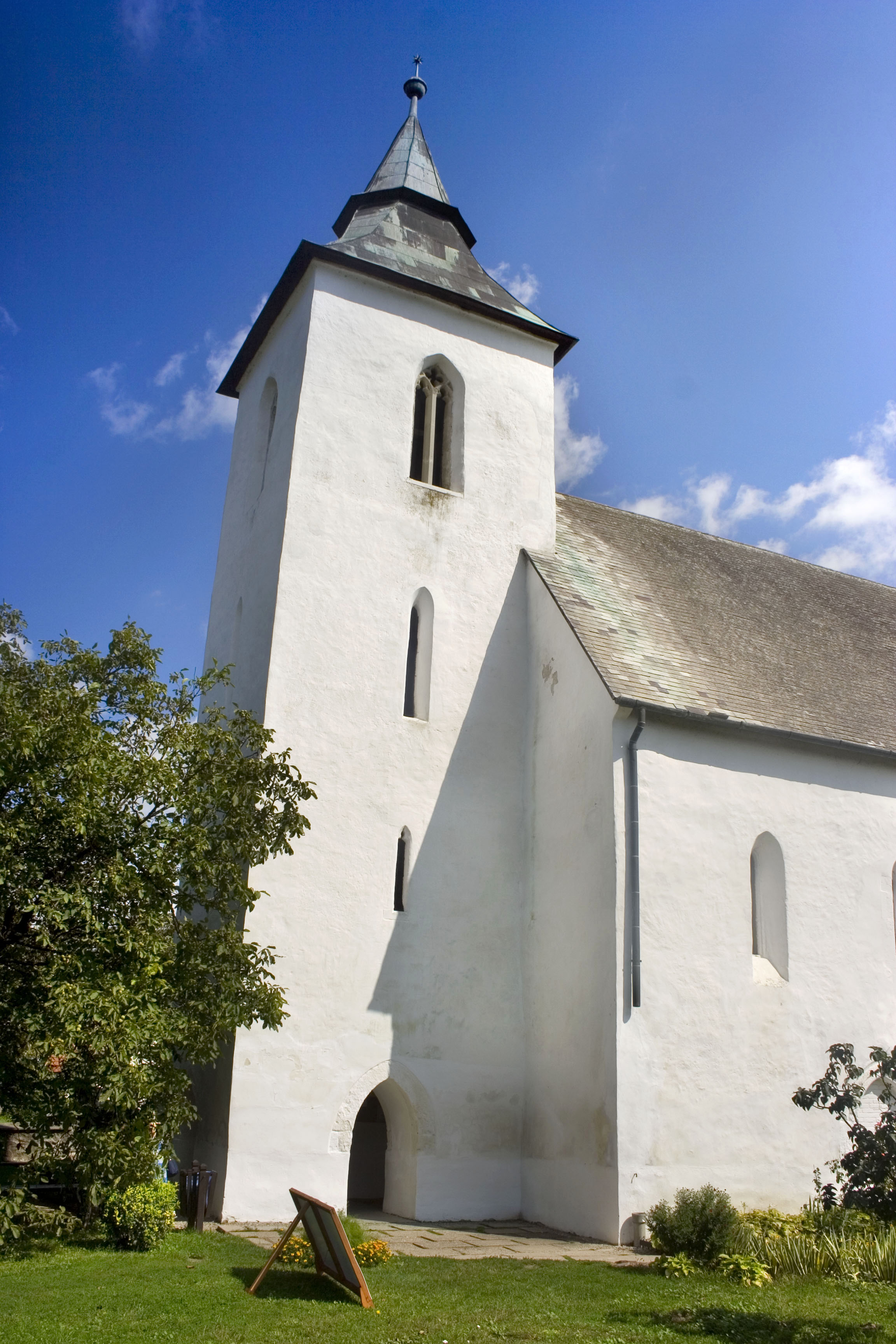 Hungary, County Zemplen, Vizsoly Reformed Romanesque church tower - XIII century